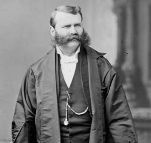 Joseph Godéric [Joseph-Goderic] Blanchet, M.P. (Lévis, P.Q.), (Speaker of the House of Commons) b. June 7, 1829 - d. Jan. 2, 1890